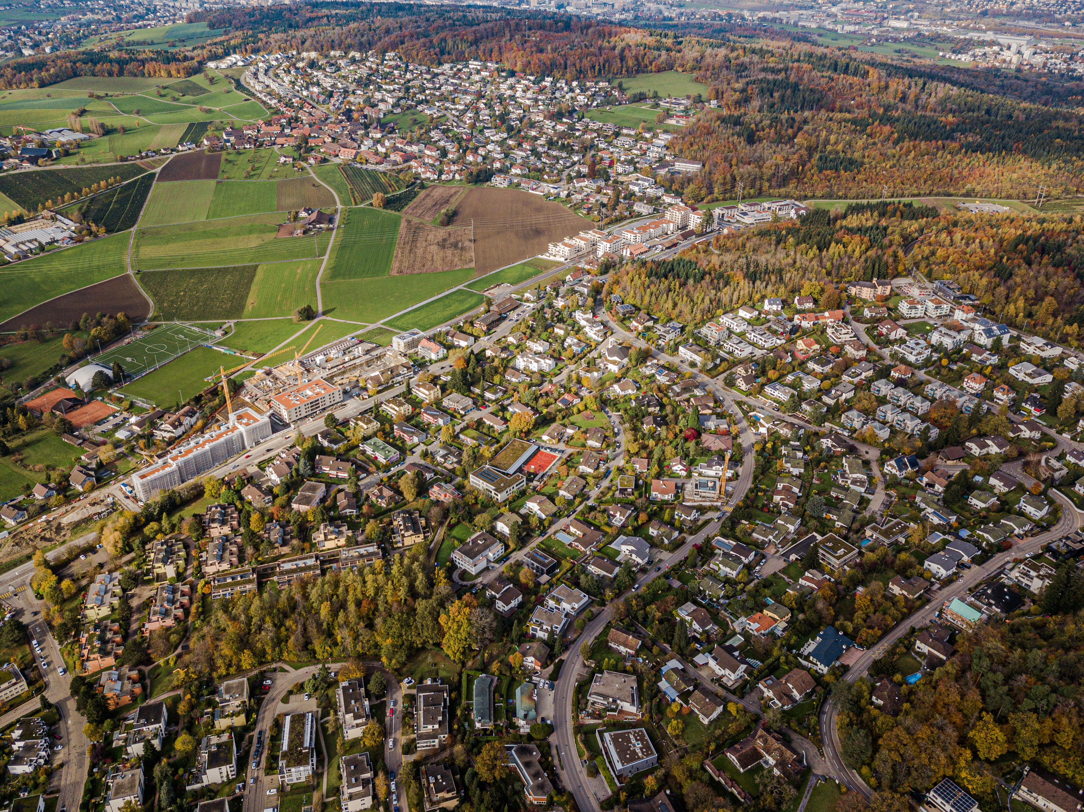 Uitikon, split by the Birmensdorferstrasse. The Stallikerstrasse is in front. In the middle the new Waldegg Center and the Crystal appartments are well visible.